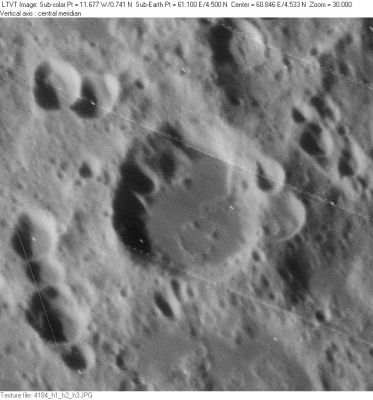 Apollonius crater